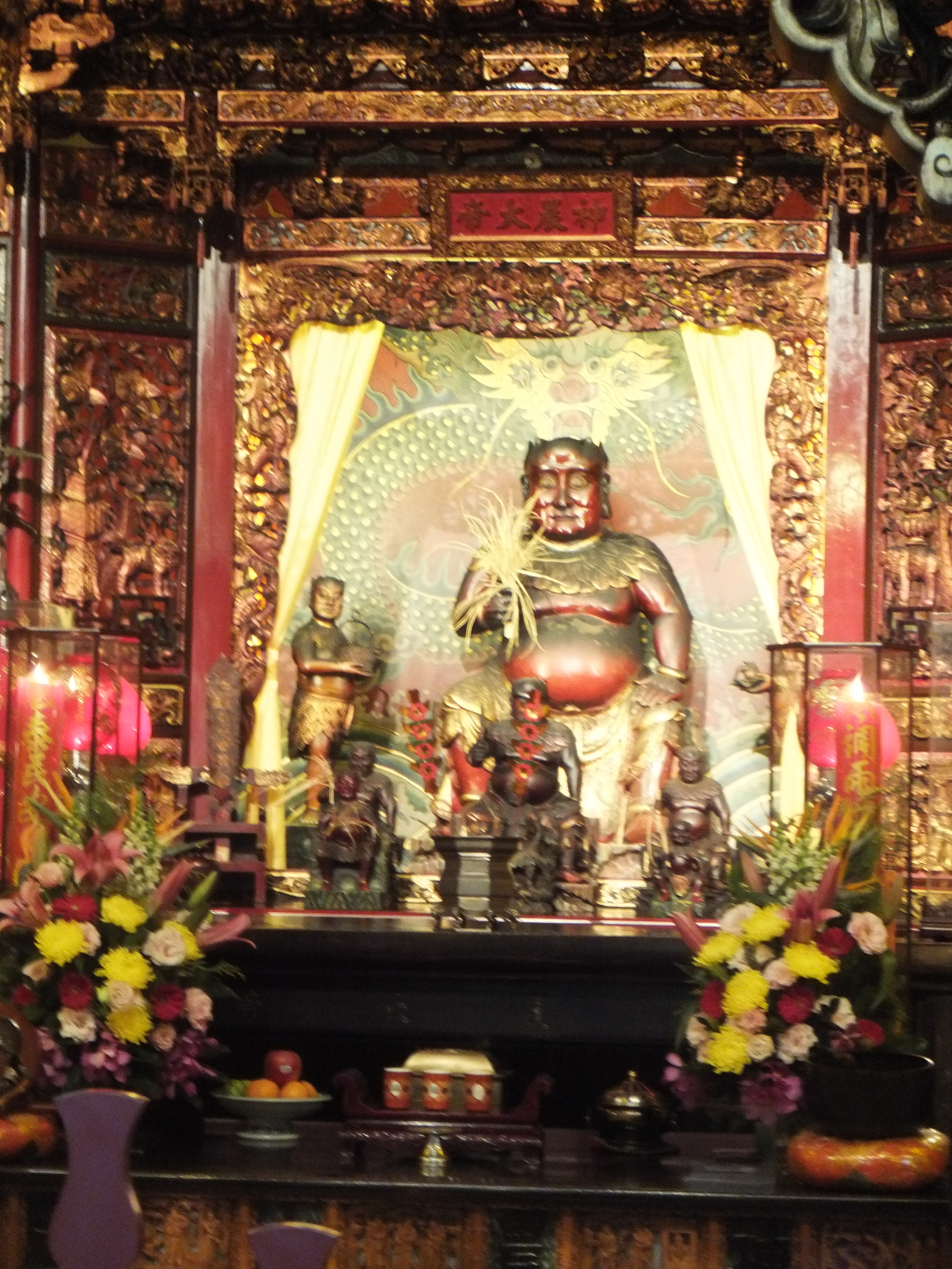 Statue of Shennong in the Dalongdong Baoan-Temple (Taipei).